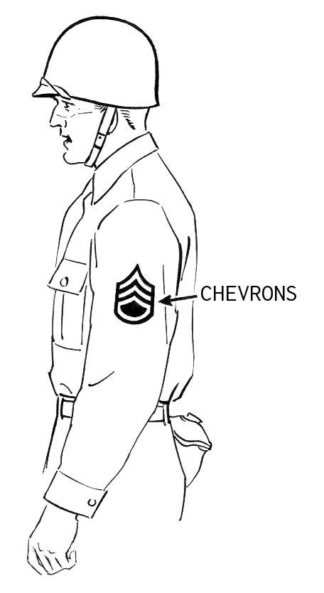 line art drawing of Chevrons.